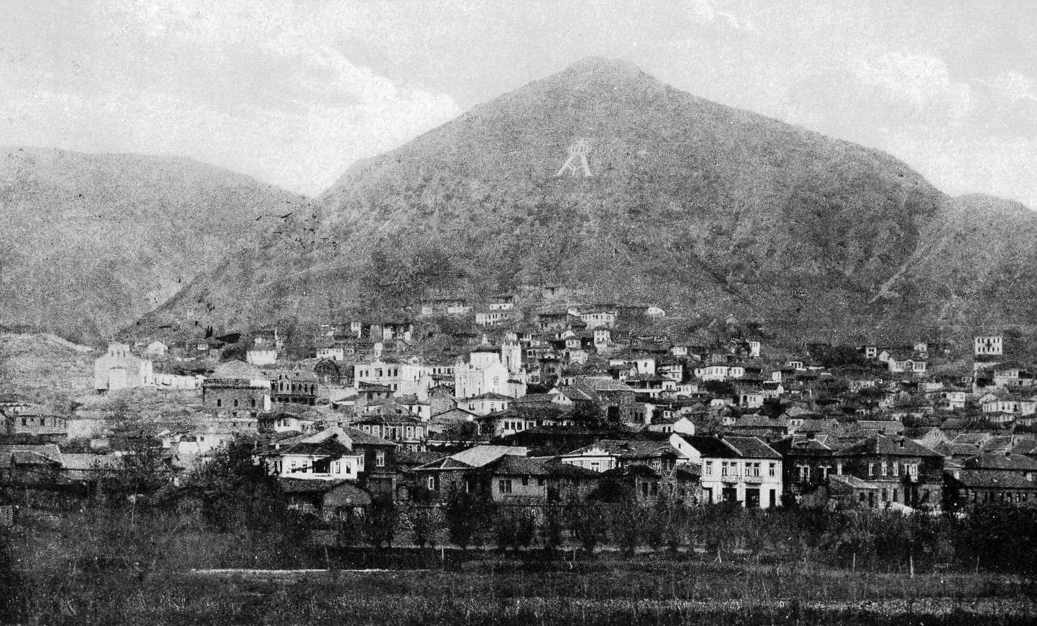 Postcard of Strumica, 1928 This media file is produced by Wikipedian in Residence in Category:Wikipedian in Residence at DARM in 2016.